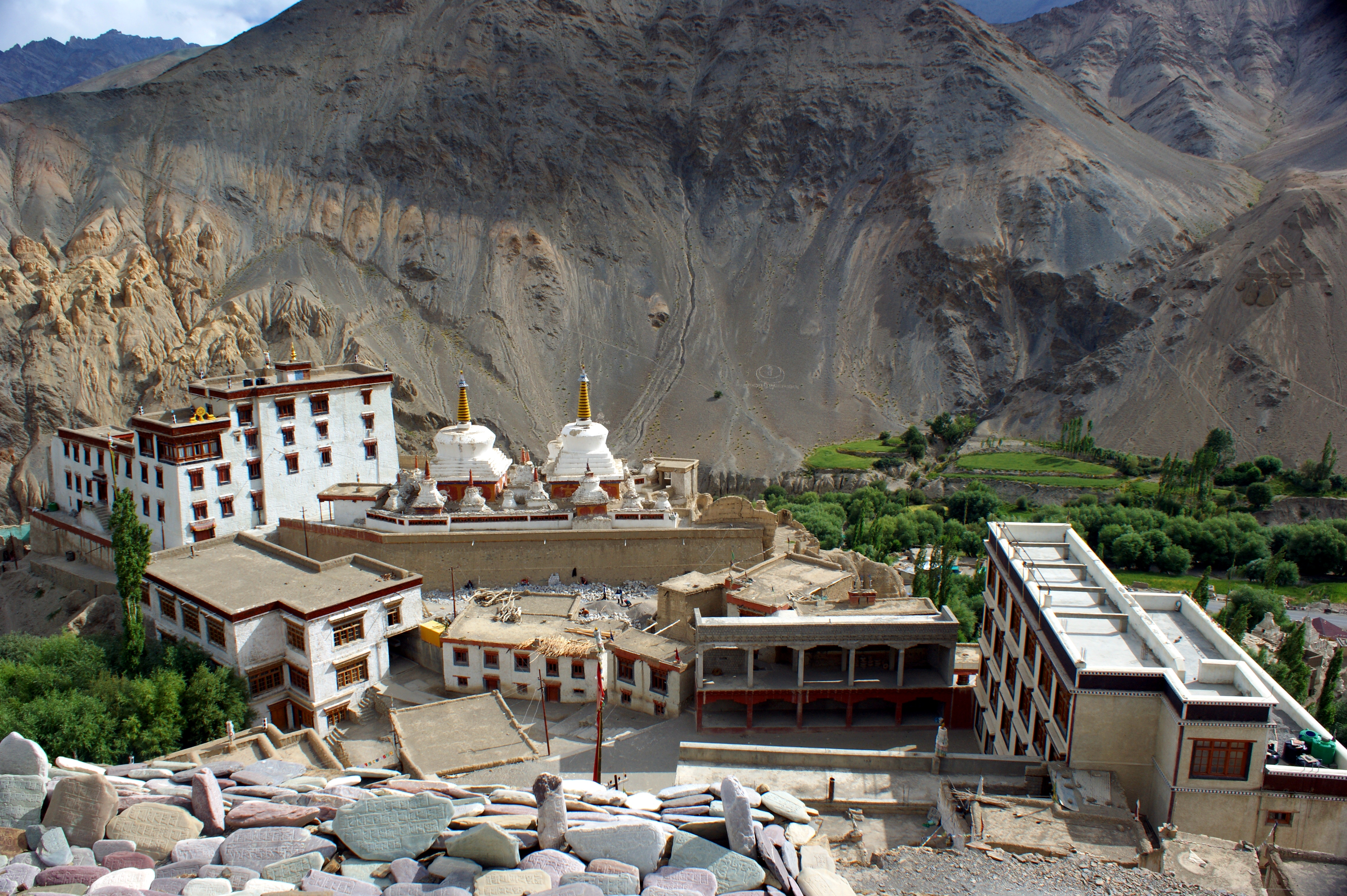 Lamayuru Gompa as seen from above